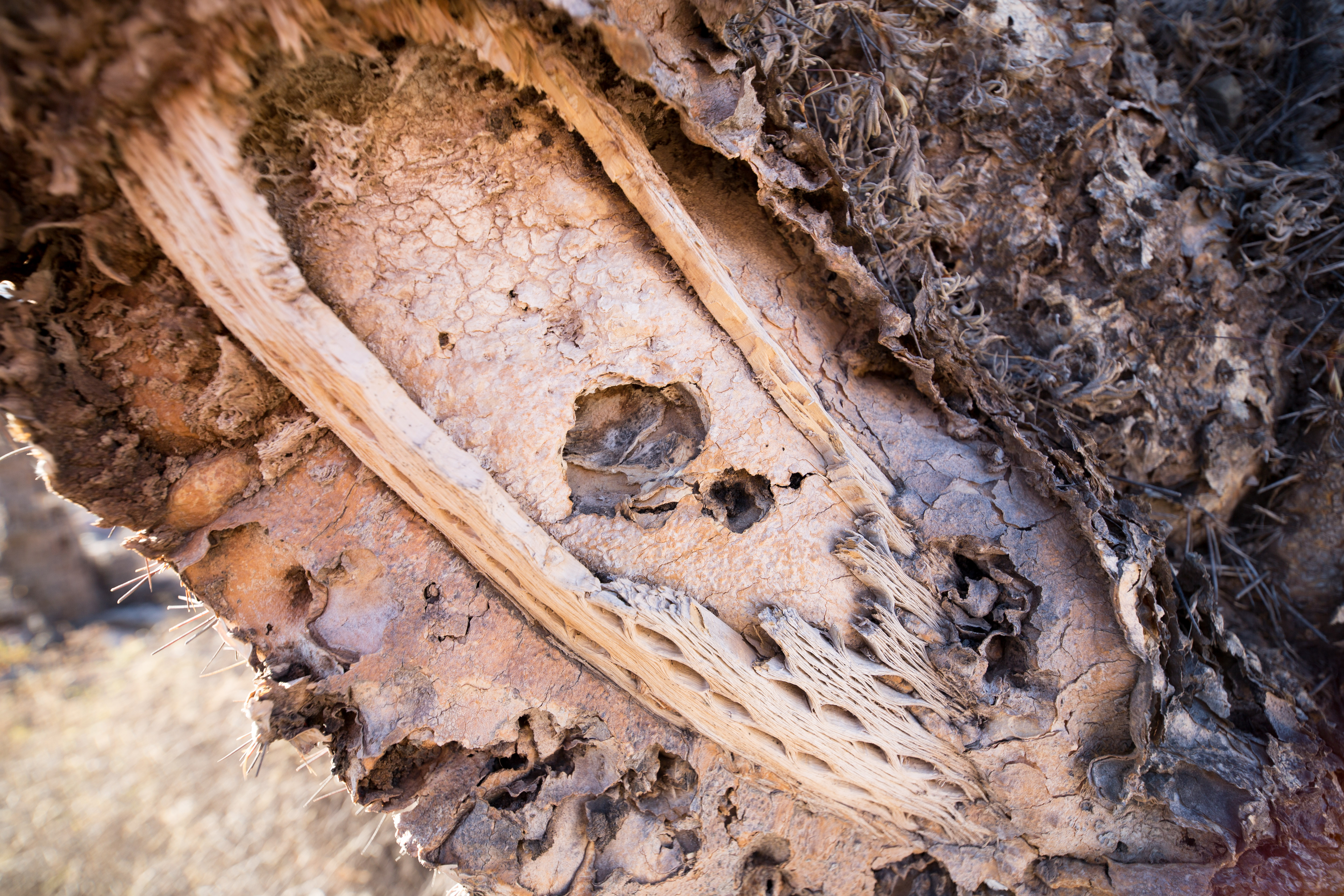 The inside structure of Echinopsis atacamensis. The internal bambus wood can easily be seen.